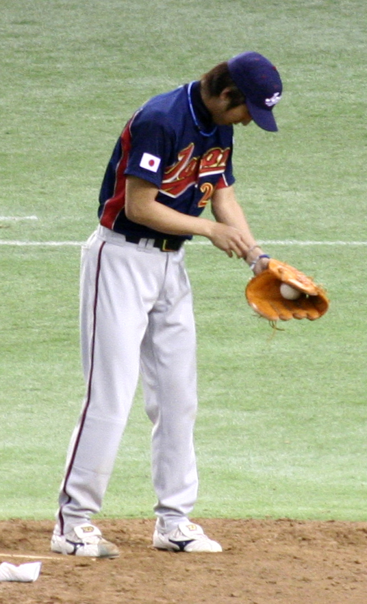 Kyuji Fujikawa, pitcher of the Japan national baseball team, at Tokyo Dome.